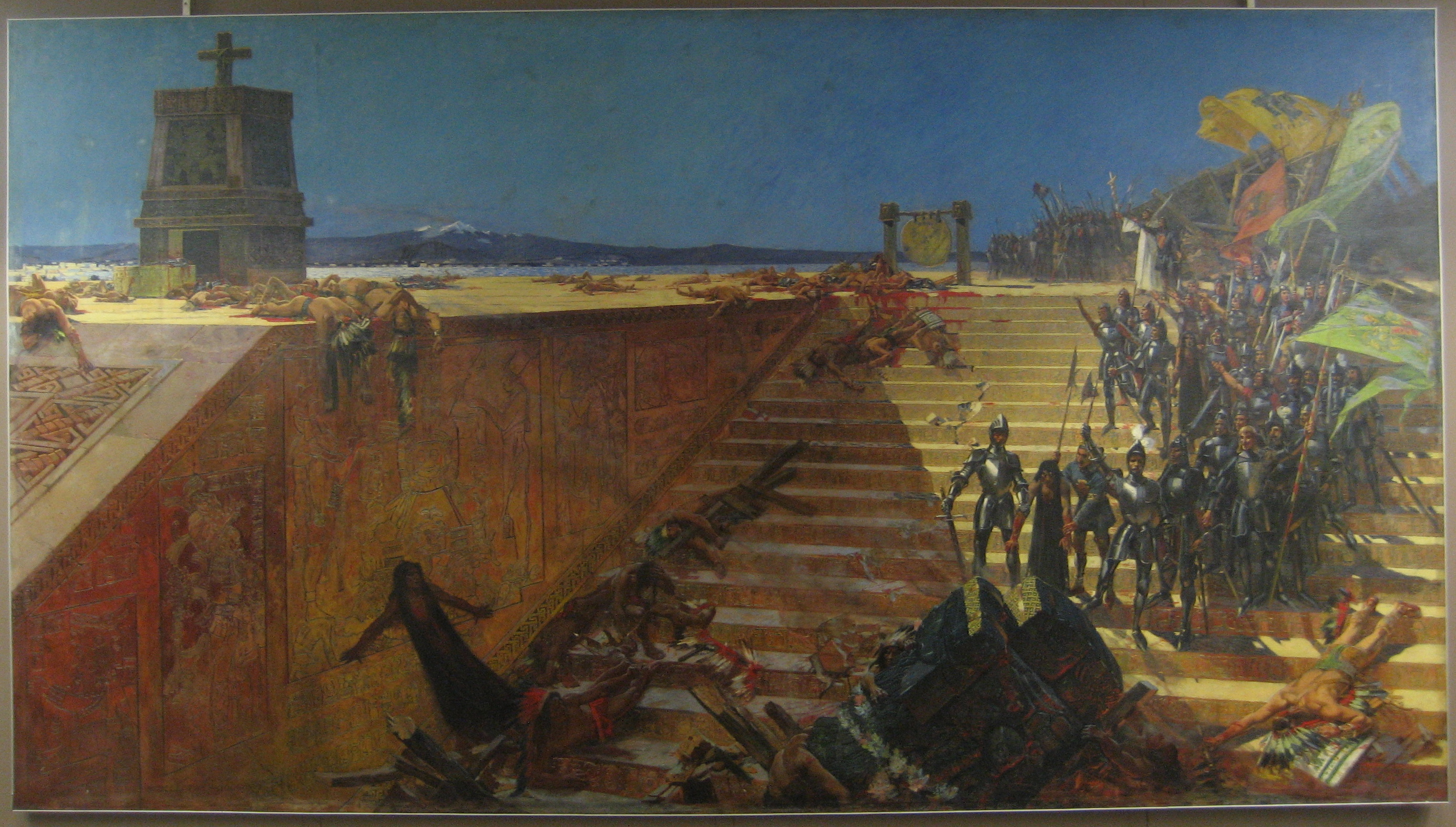 Depicting the Fall of Tenochtitlan, final battle of the Spanish conquest of the Aztec Empire in 1521. Photograph of the painting on display.